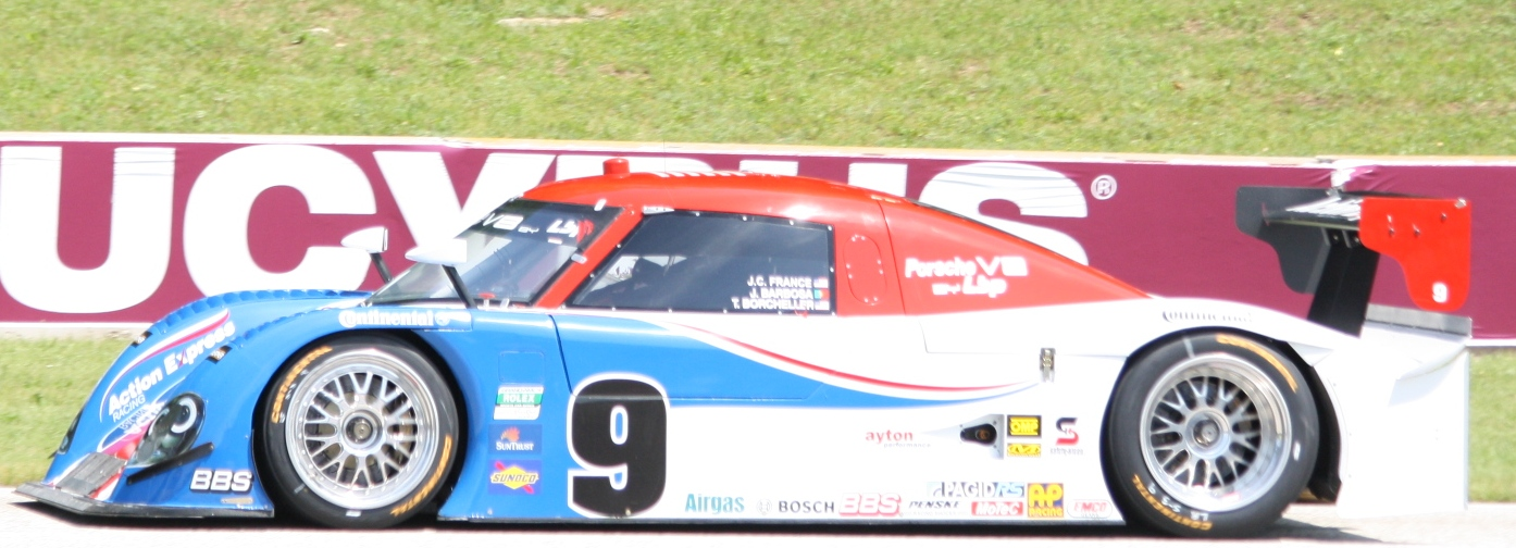 The Daytona Prototype of Joao Barbosa, Terry Brocheller, and JC France racing in Grand-Am sports car at Road America.